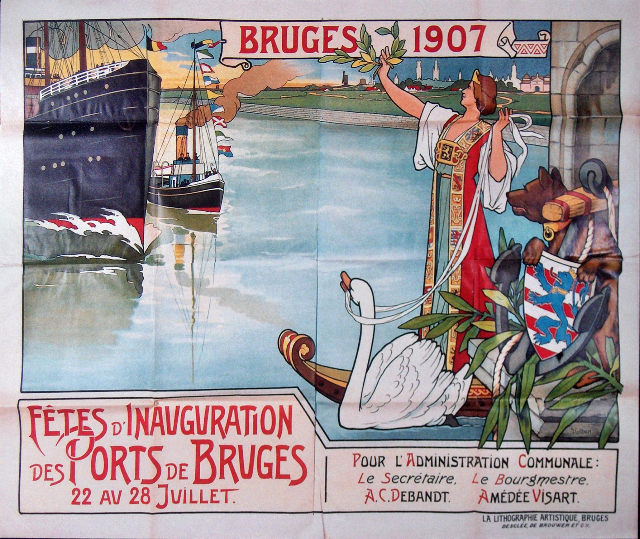 Inauguration (1907) of the inland port of Bruges, Belgium; artwork by J. Gilbert as per signature lower right corner.